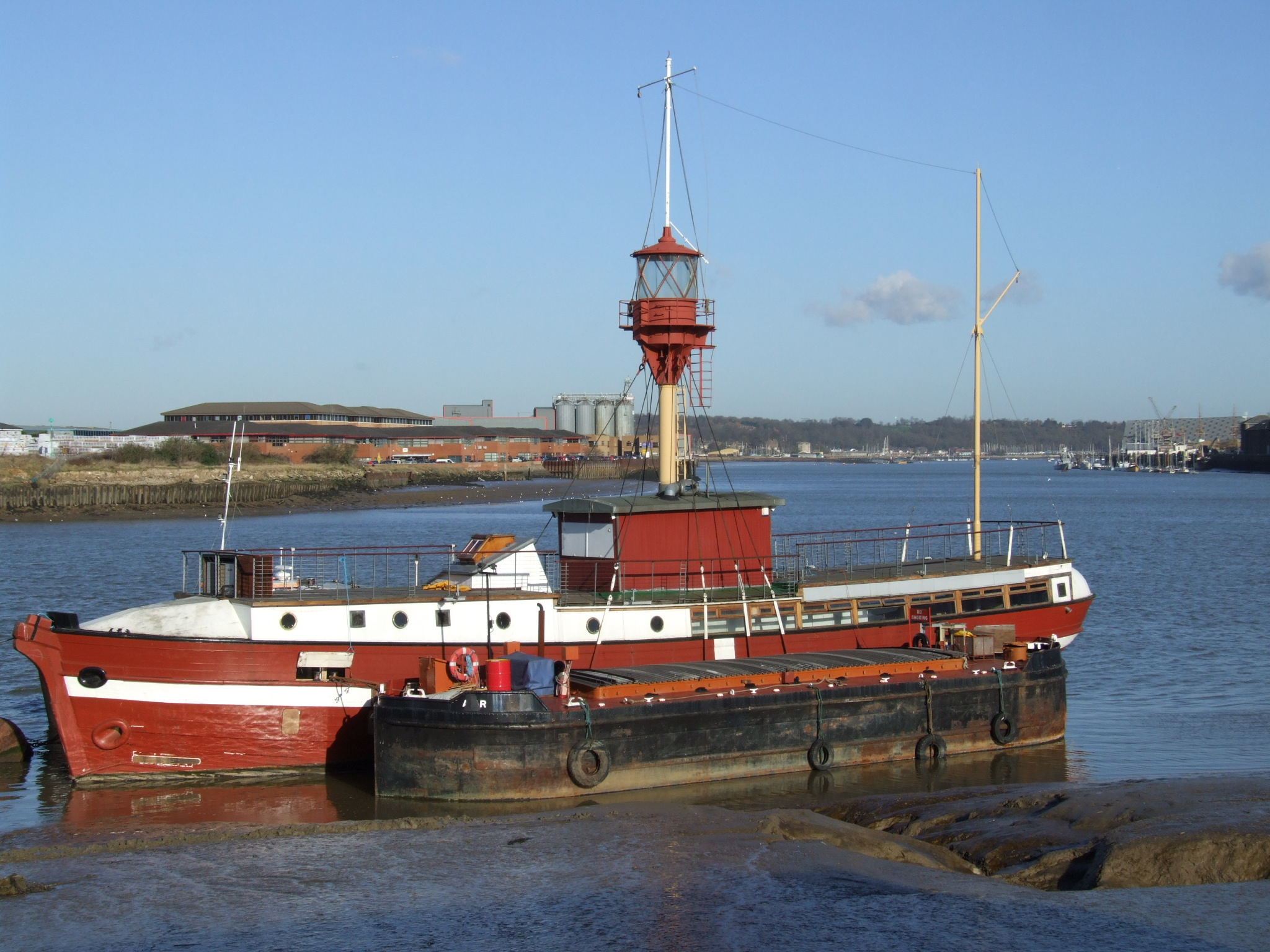 Medway Estuary at Chatham, by Sun Pier.